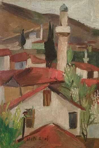 A landscape from Bursa by Hale (Salih) Asaf (1905-1938) a female Turkish painter of Georgian descent.